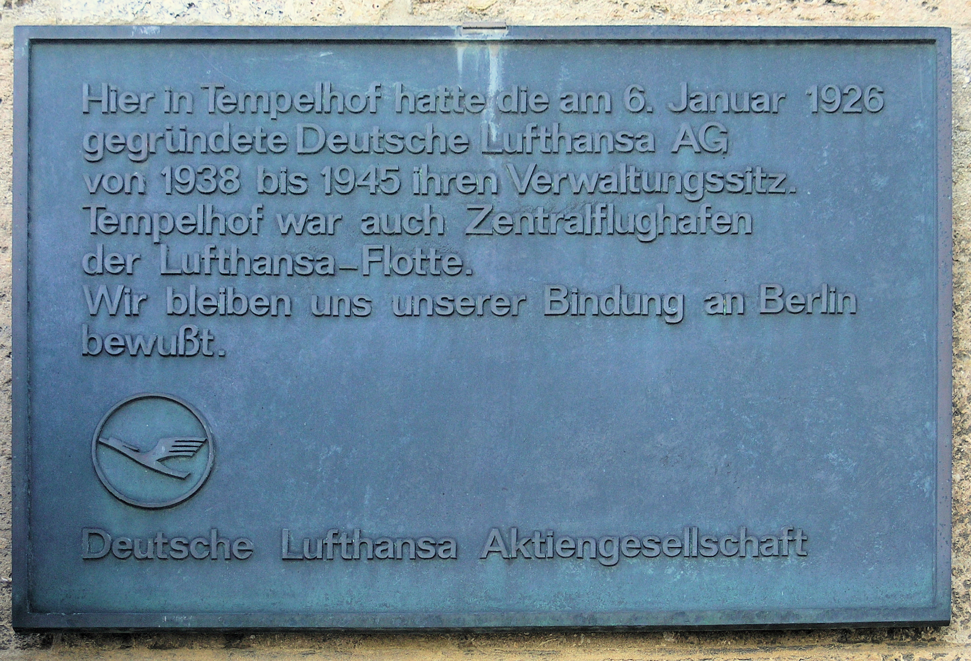 Memorial plaque, Lufthansa, Platz der Luftbrücke 5, Berlin-Tempelhof, Germany